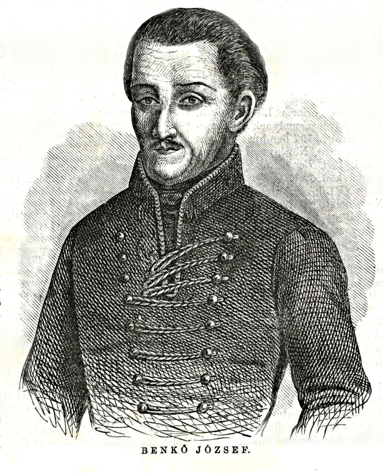 Portrait of József Benkő